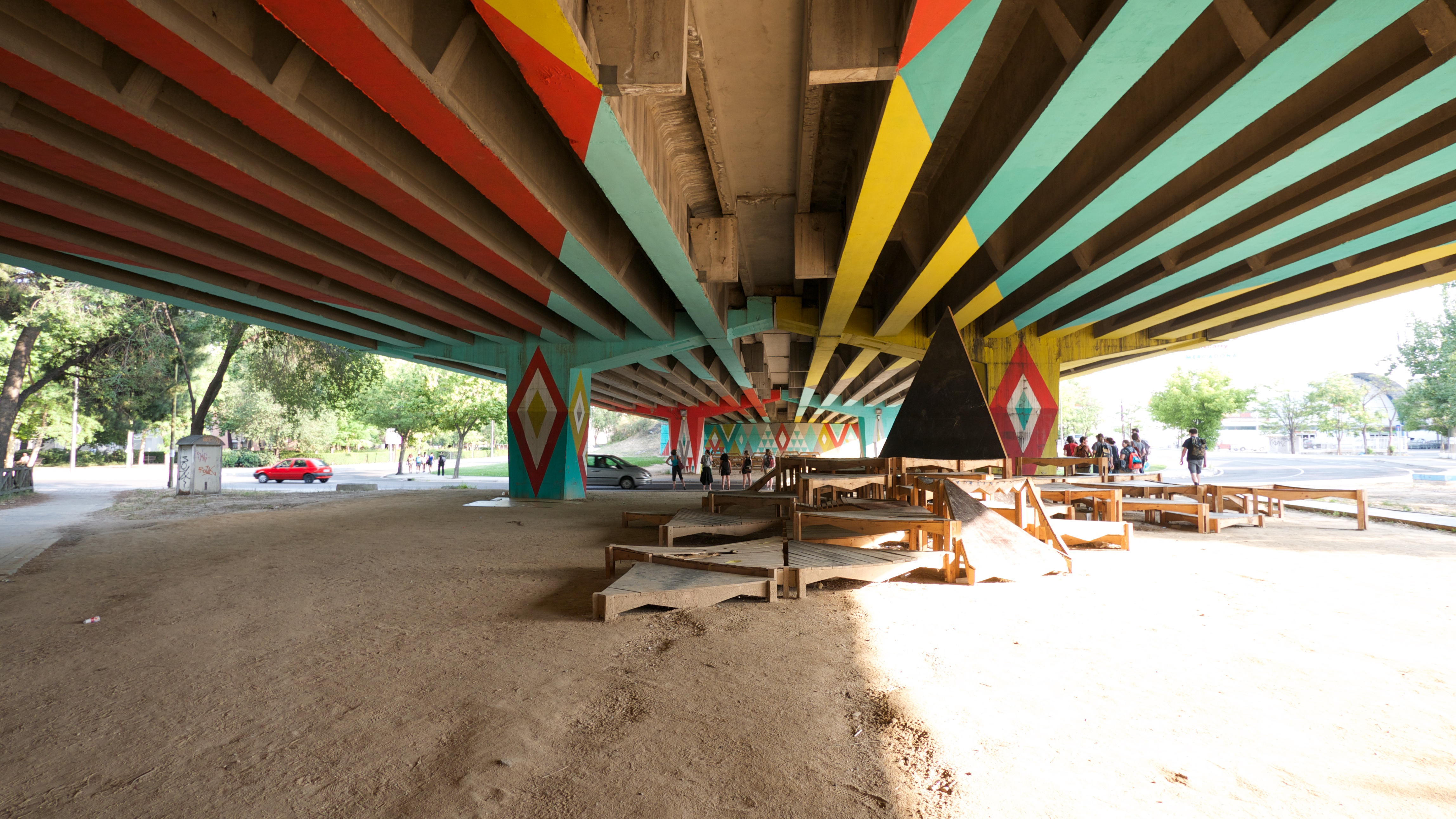 Stage